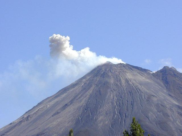 Vulcan Arenal 2